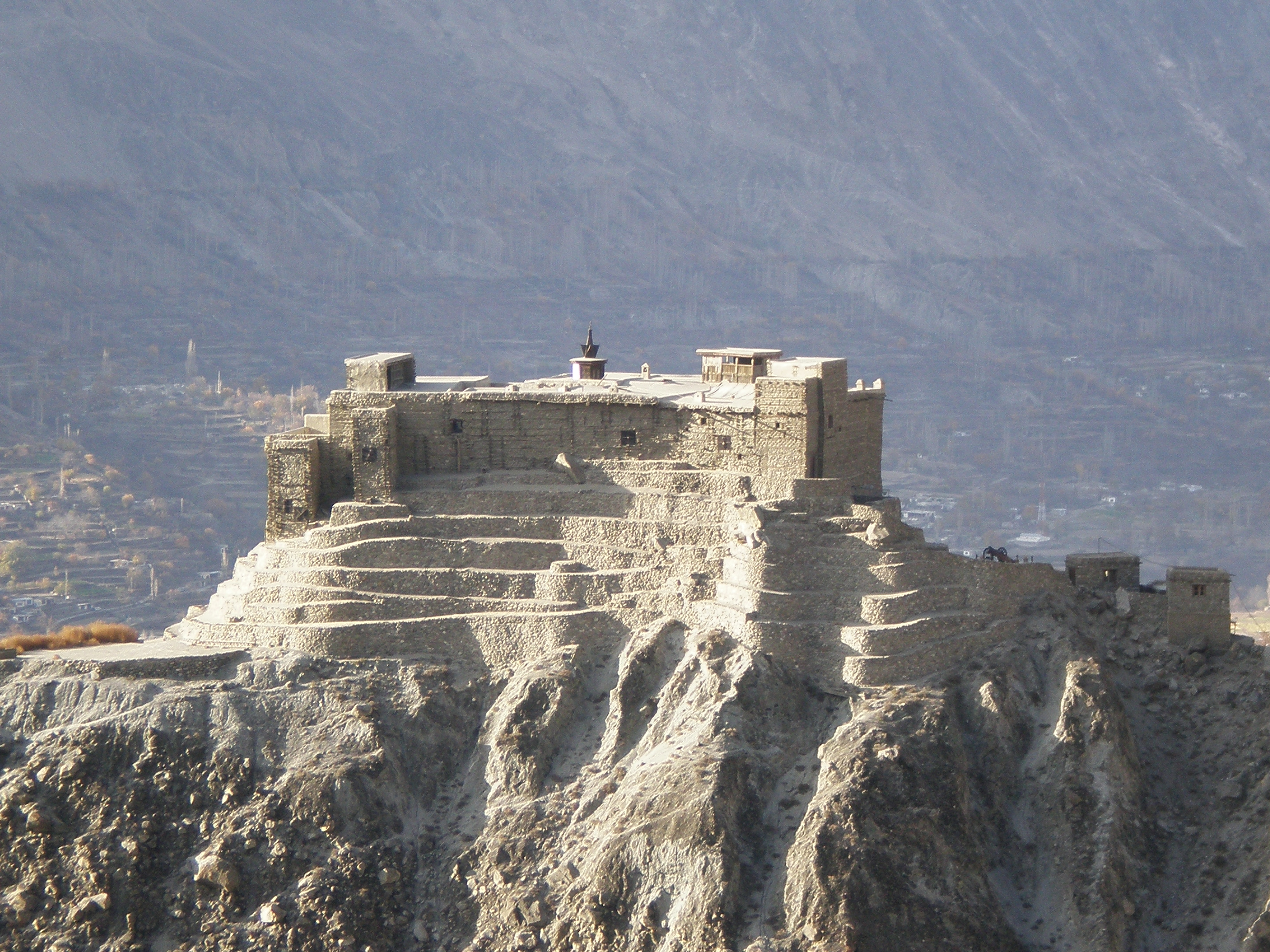 Baltit fort